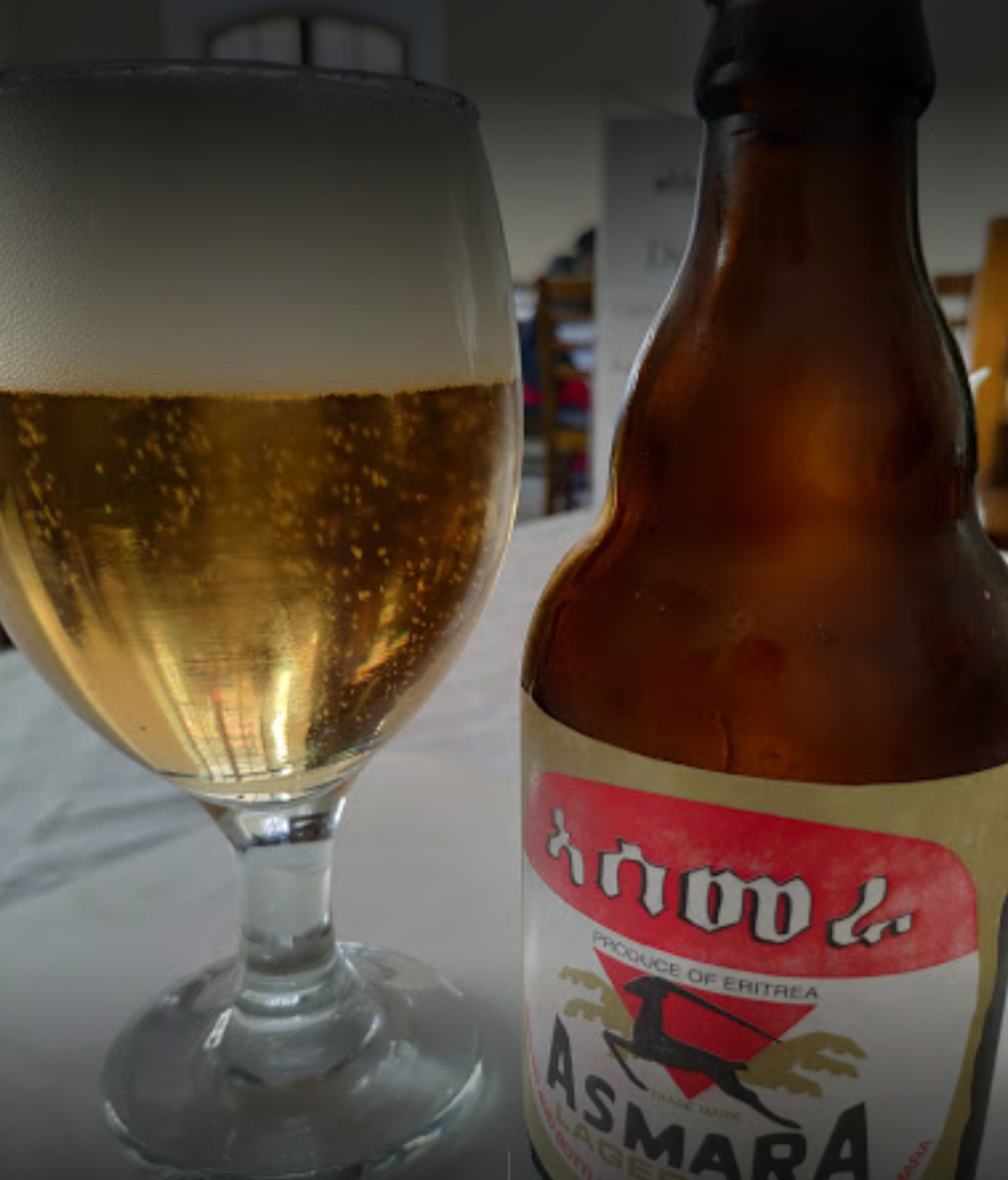 Asmara Beer. Asmara Brewery was built in 1938 under the of name Melotti in Asmara, Eritrea